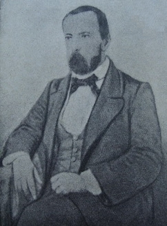 Antoni Jelenski (1818-1874), leader of uprising 1863-1864 in Lithuania and Belarus